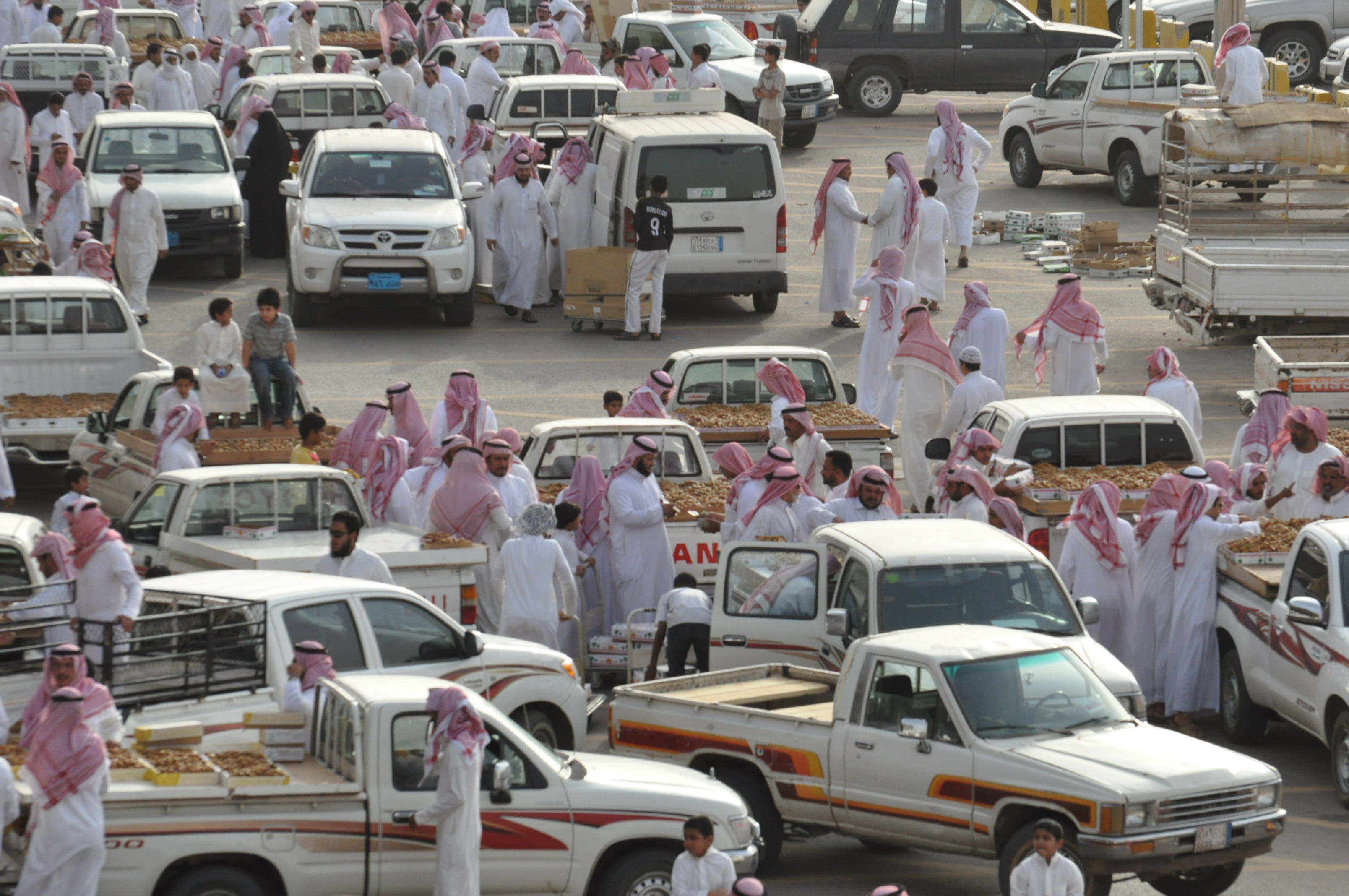 Date City in Buraidah